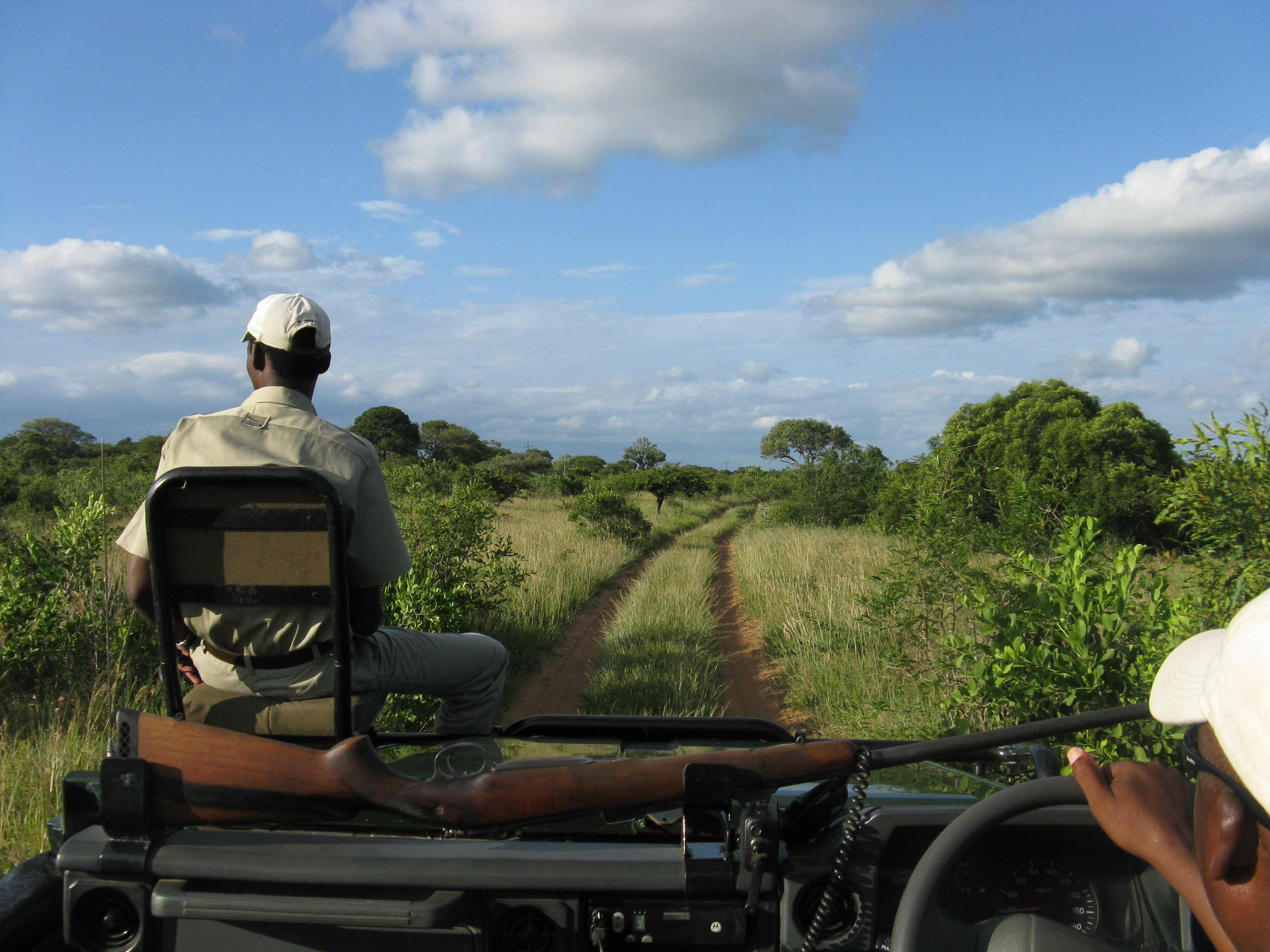 A game drive in the Phinda Resource Reserve, KwaZulu-Natal, South Africa. January 14, 2009 @ 5:20pm local time. Unaltered original.